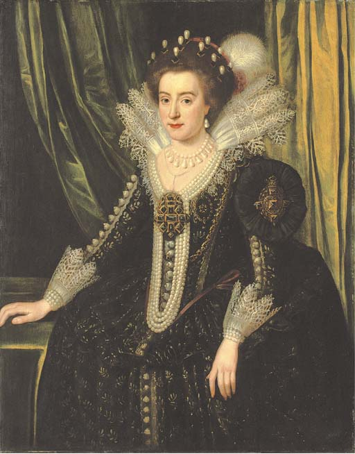 at three-quarter length, in a black bejewelled and embroidered mourning dress (for her brother, Henry Federick Prince of Wales) with lace collar and cuffs, and an elaborate pearl headdress, her right hand resting on a table and a green curtain beyond